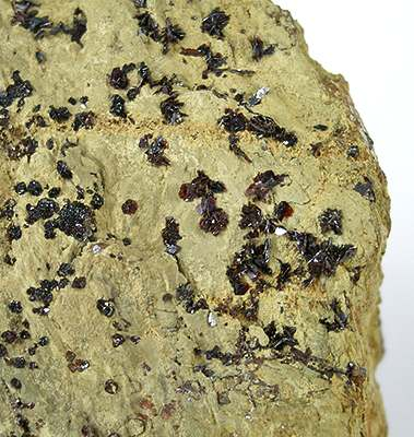 Bismutite, Pucherite Locality: Brejauba, Mato Dentro, Minas Gerais, Brazil Size: small cabinet, 6.7 x 4.6 x 2.7 cm Pucherite on Bismutite Pucherite from Germany is known for its rarity and desirability for collectors of extremely rare species - it is a bismuth vanadate. I have never seen for sale any crystals above 1mm, myself. This specimen, as with the best German pieces I have handled, has crystals to this size. However, they are fiery red and lustrous in this case, not dark brown as with the Pucher Mine classics. Myself, I have also never seen a Brazilian pucherite except a few insignificant micros before. This one redefined my expectations for the species, completely! This specimen is LOADED with the crystals, spread in veins throughout surprisingly heavy matrix which is rich in bismuth (and said to be bismutite on an accompanying old label). To maximize value, of course, the piece could easily be trimmed i nhalf and yield two equally valuable examples, I would think, worth the same as the whole given their richness overall. The crystals occur singly or in clusters. Ex Philadelphia Academy of Natural Sciences, probably from the early 1900s.